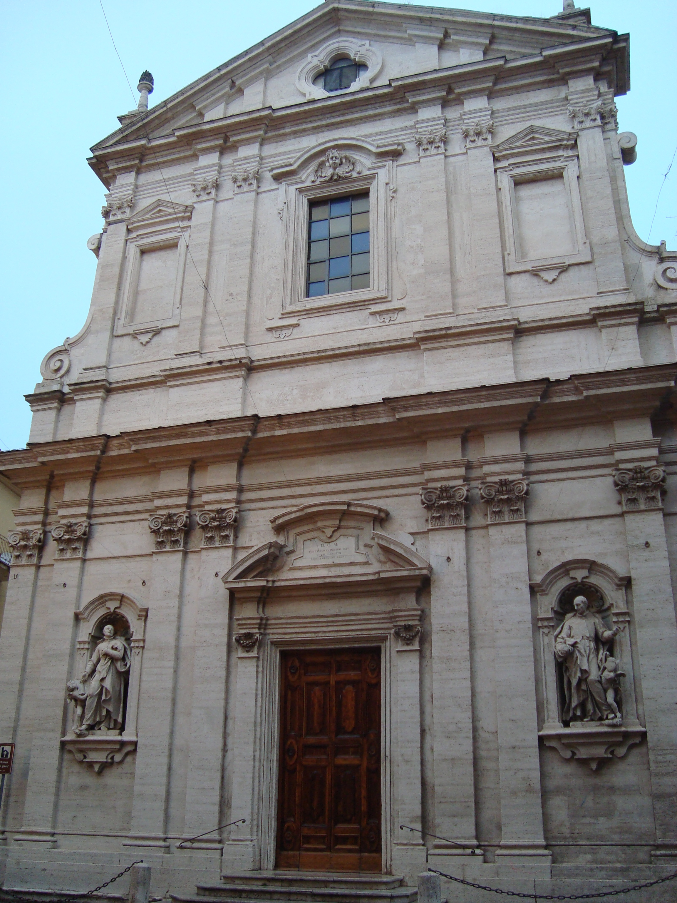 The Chiesa du Gèsu in Frascati showing two statues of Pietro di Cortona